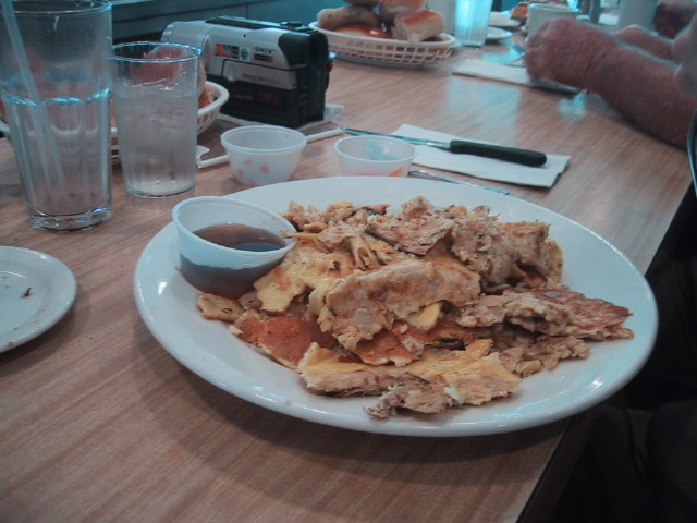 Matzoh brie as prepared and served at Rascal House